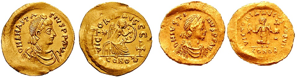 Semissis von Kaiser Anastasius I. und Tremissis von Kaiser Justin I.